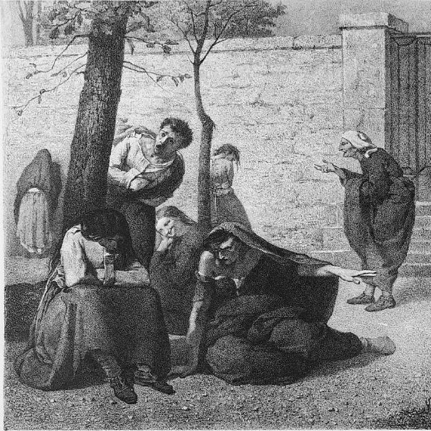 1857 lithograph by Armand Gautier, showing personifications of dementia, megalomania, acute mania, melancholia, idiocy, hallucination, erotomania and paralysis in the gardens of the Hospice de la Salpêtrière. Reprinted in Madness: A Brief History (ISBN 978-0192802668), from which this version is taken.